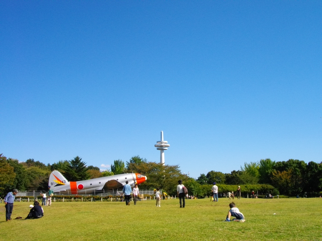 Tokorozawa Aviation Commemorative Park